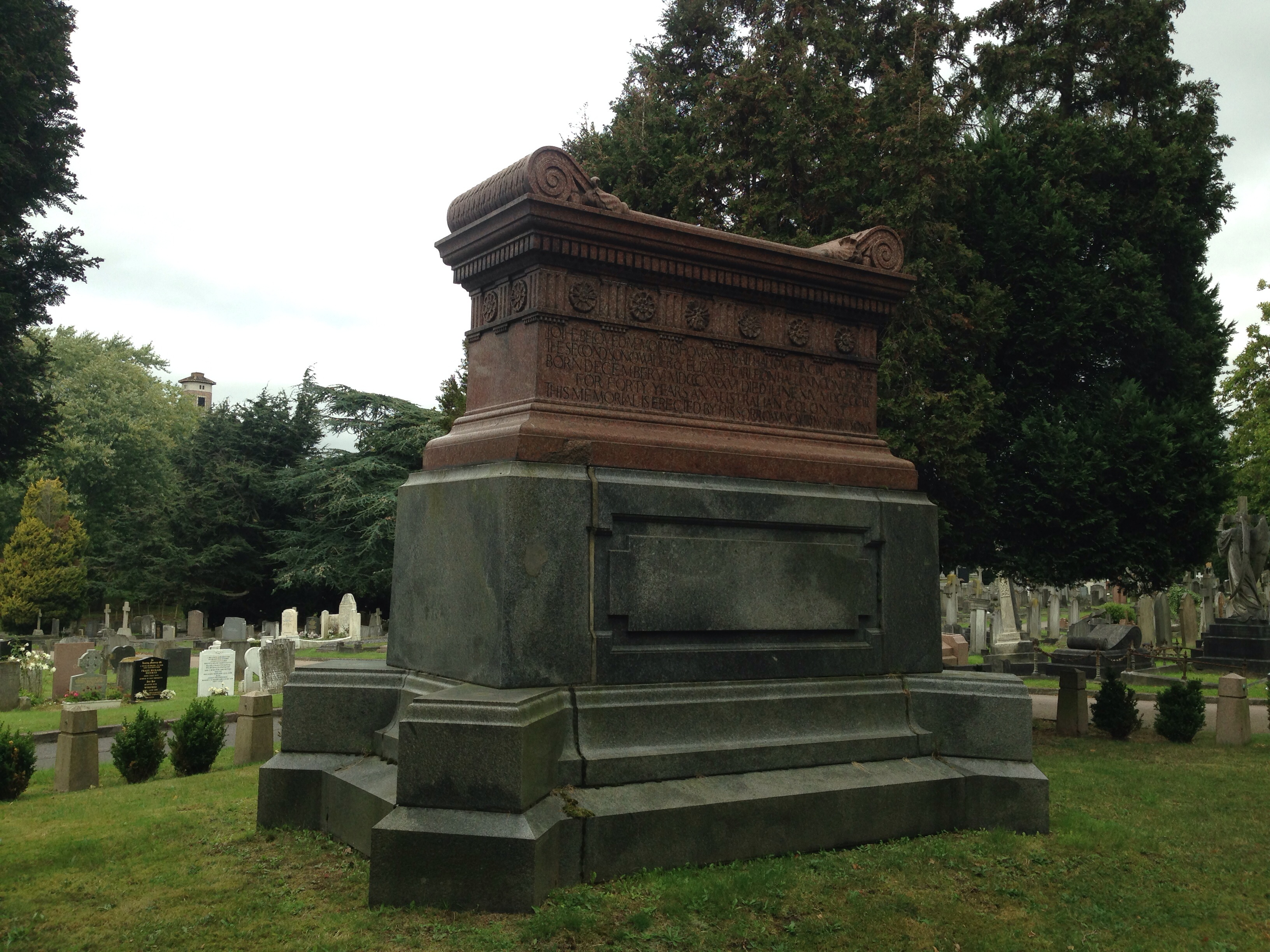 Wikidata has entry Q27082221 with data related to this item.